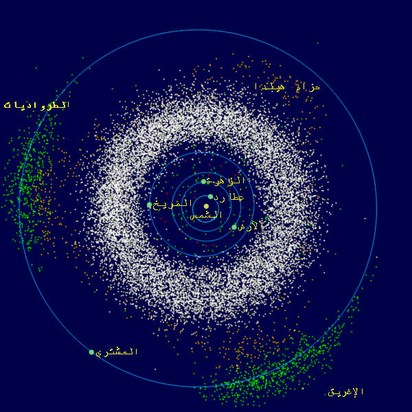 The inner Solar System, from the Sun to Jupiter. Also includes the Main Asteroid Belt (the white donut-shaped cloud), the Hildas (the orange "triangle" just inside the orbit of Jupiter) and the Jovian Trojans (green). The group that leads Jupiter are called the "Greeks" and the trailing group are called the "Trojans" (Murray and Dermott, Solar System Dynamics, pg. 107). This image is based on data found in the JPL DE-405 ephemeris, and the Minor Planet Center database of asteroids (etc) published 2006 Jul 6. The image is looking down on the ecliptic plane as would have been seen on 2006 August 14. It was rendered by custom software written for Wikipedia. The same image without labels is also available.